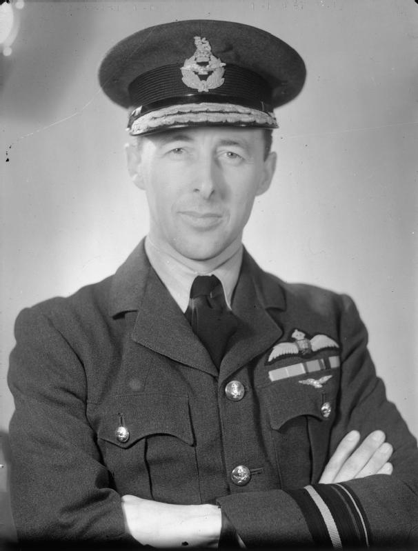 Royal Air Force Bomber Command, 1942-1945. Air Vice Marshal D C T Bennett, Air Office Commanding No. 8 (Pathfinder Force) Group. Photograph taken at the Air Ministry Studios, London.